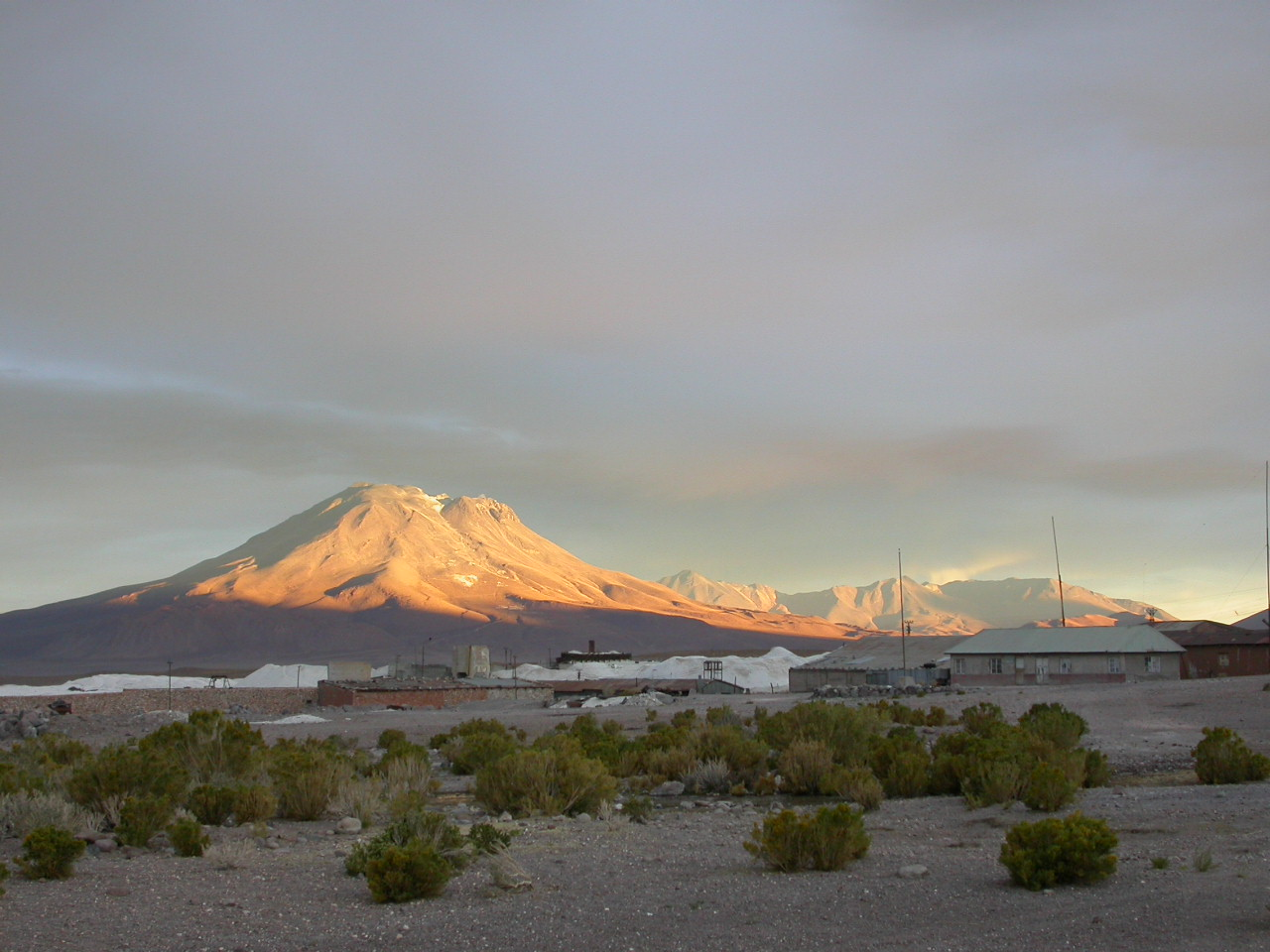 Ollagüe Volcano, viewed from the abandoned mining town of Amincha, ~30 km to the northwest.